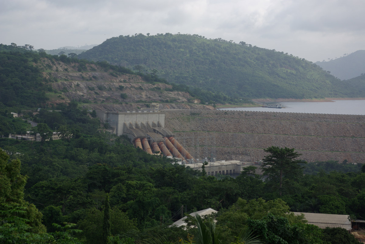 Akosombo Dam from the Volta Hotel; photograph taken in late July 2007.